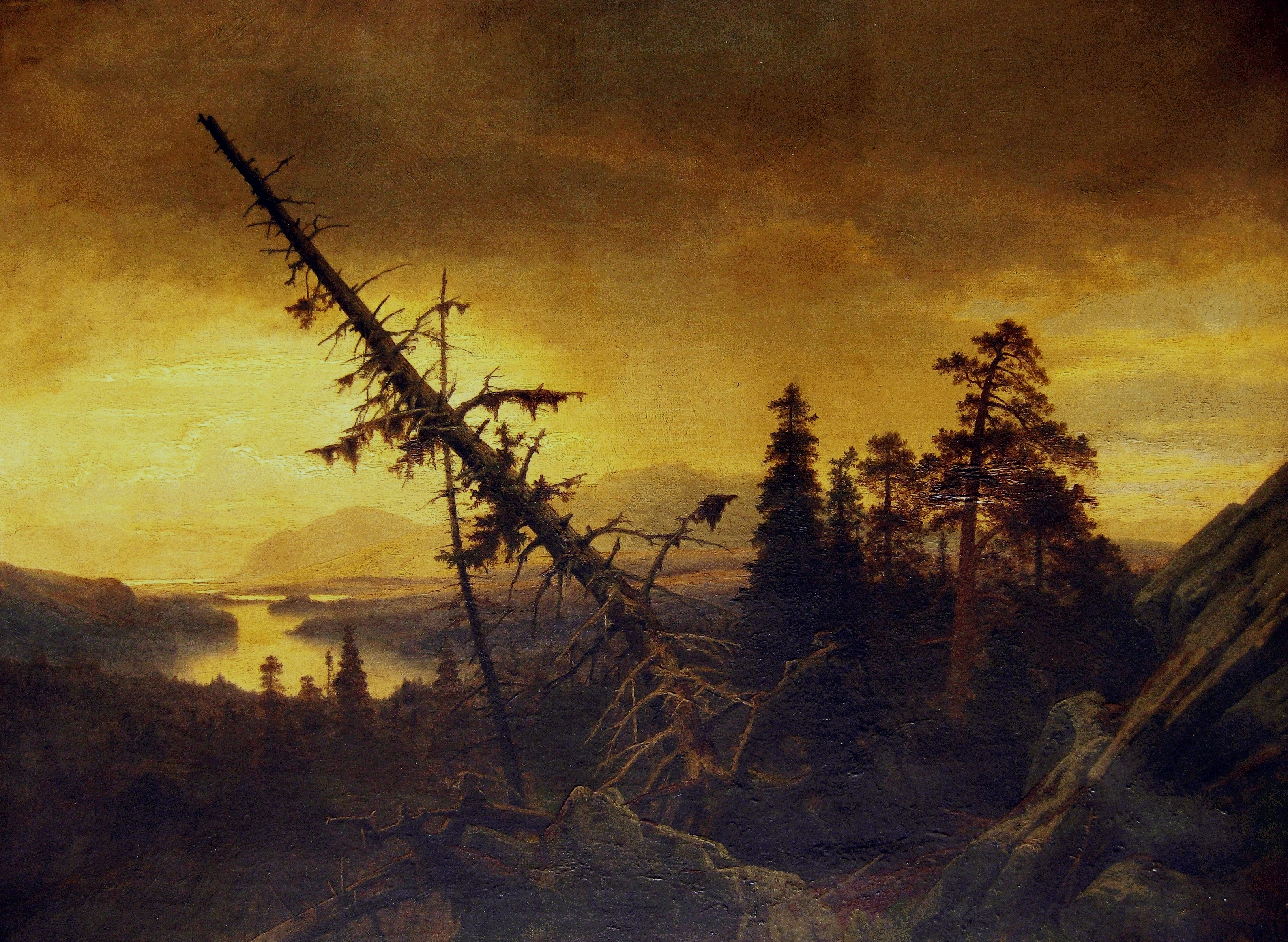 Erik Bodom: Tranquillity after the Storm, 1871. Oil on canvas - Landscape in the mountains of Norway